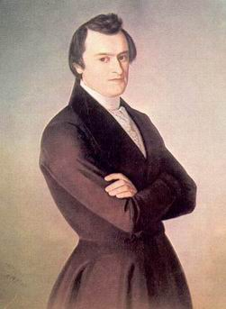 Michal Miloslav Hodža, Slovak priest